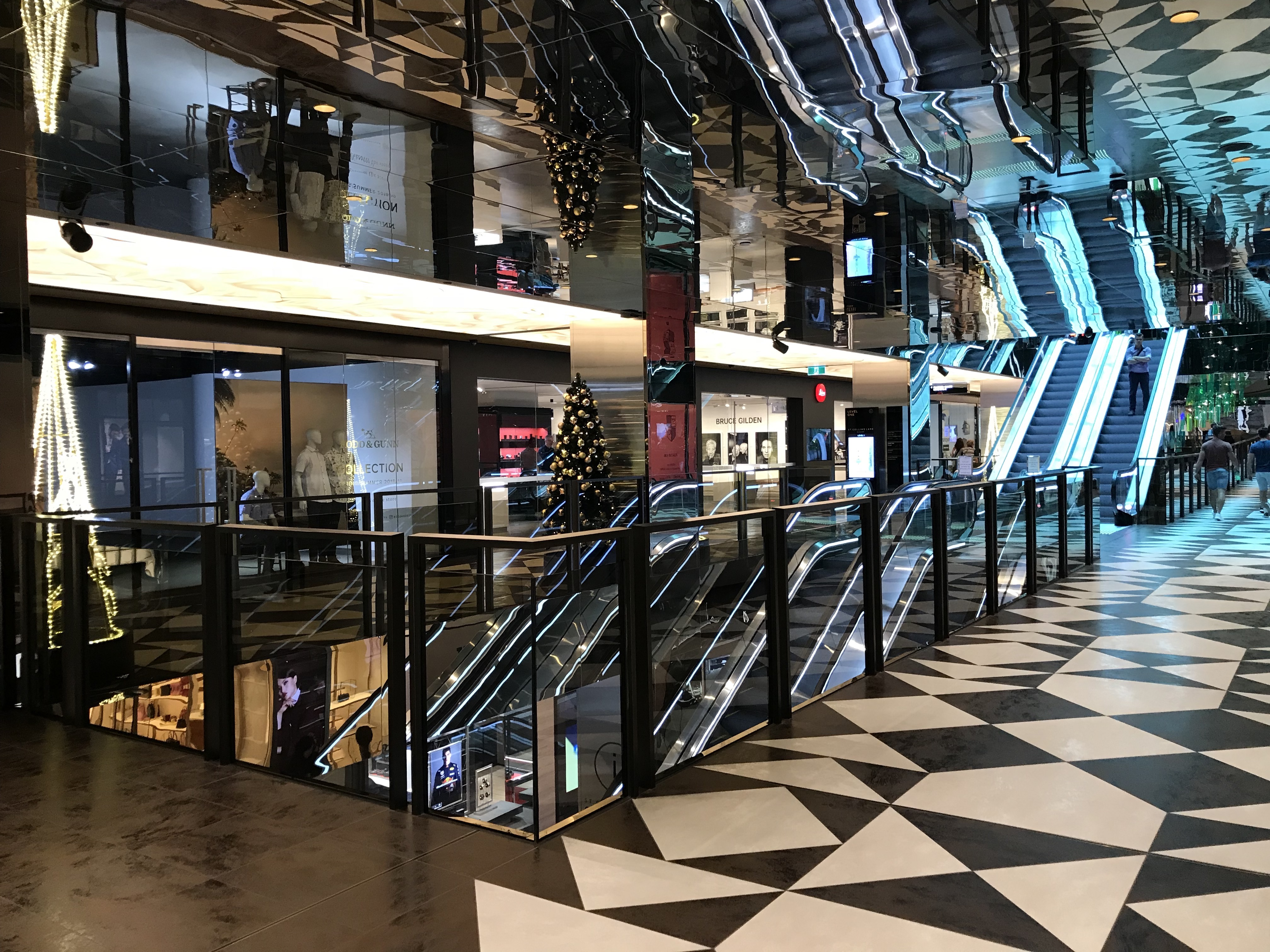 Level 2 Shops